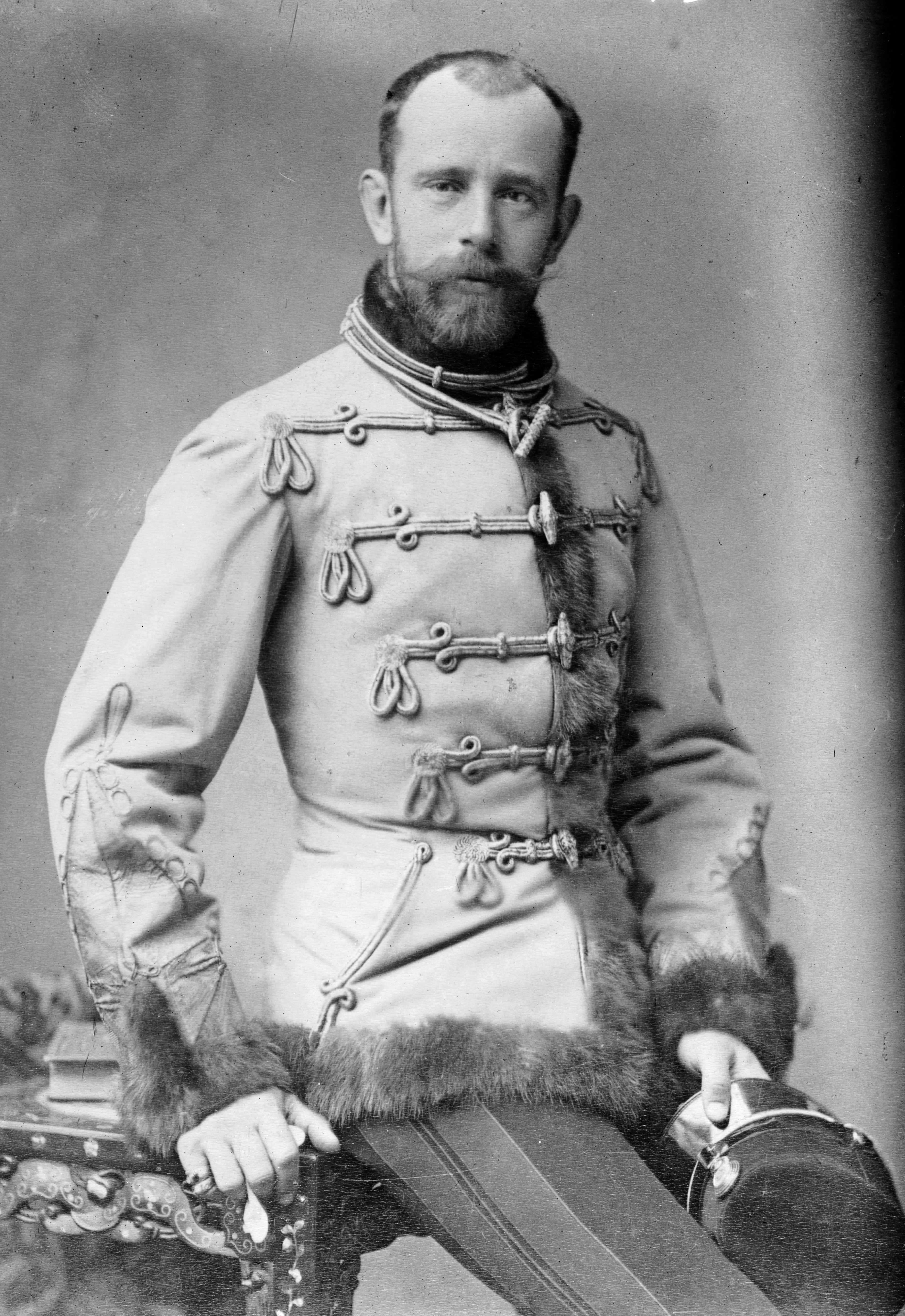 Crownprince Rudolf of Austria-Hungary